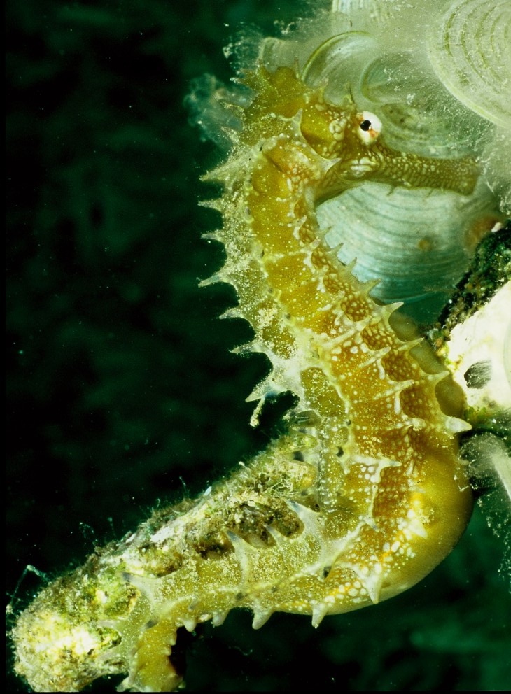 Egypt, Sinai, Dahab city just outside the last bomb impact area.